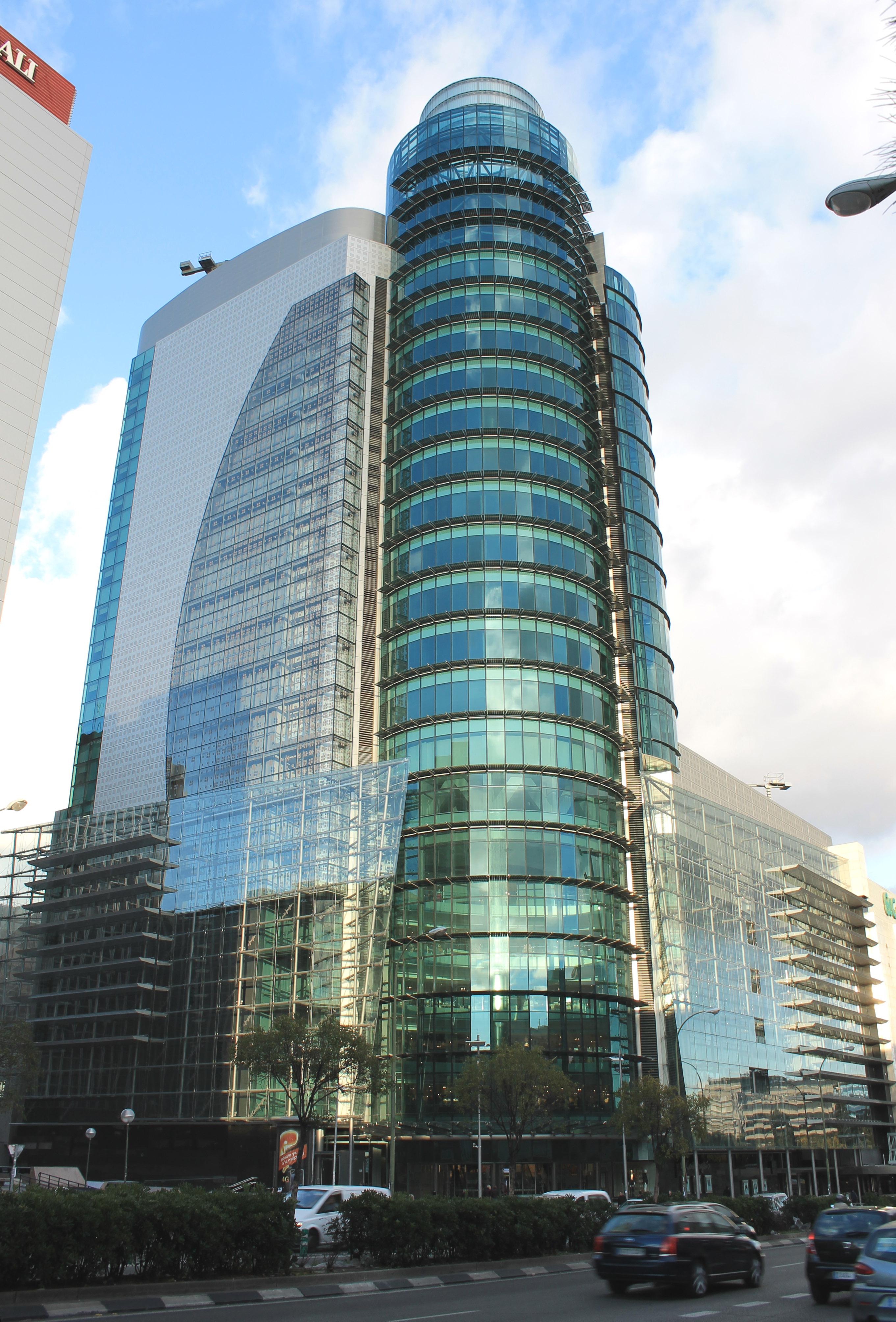 Façade of Torre Titania in Madrid (Spain).